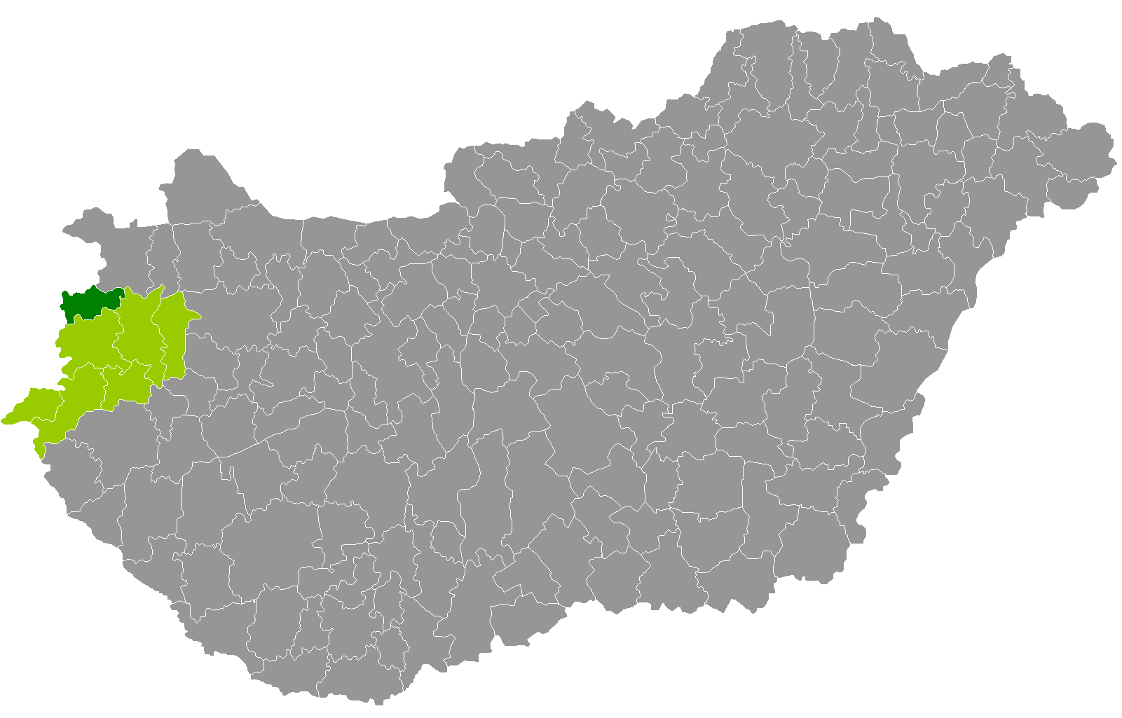 Location of Kőszeg District, Vas, Hungary